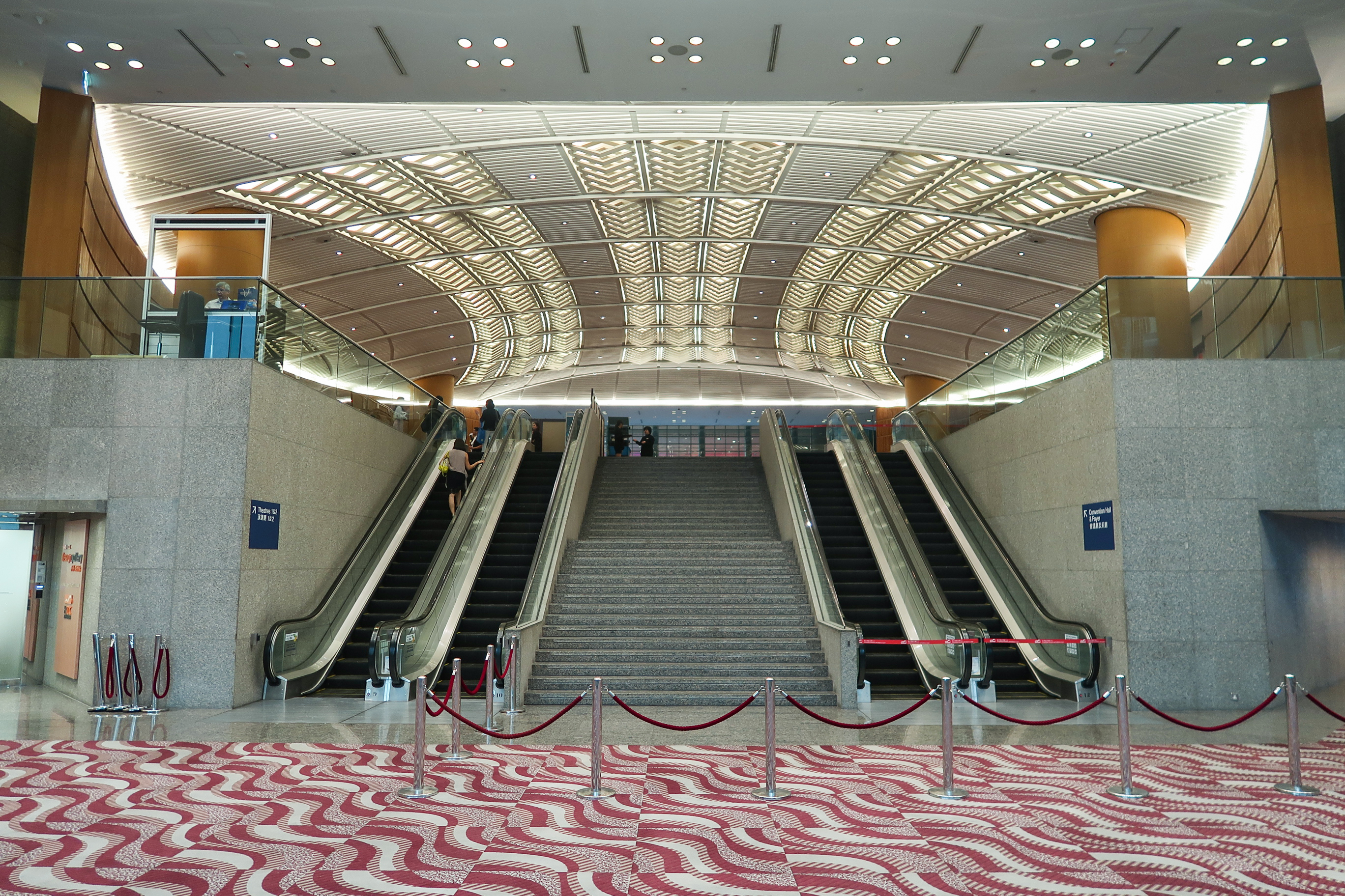 HKCEC Main entrance of Convention Hall